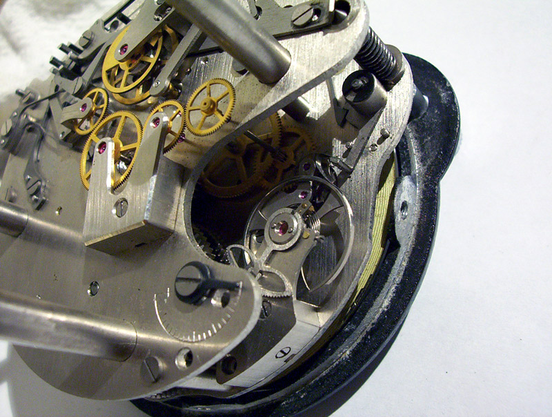 Movement of Russian ACS-1 Military Cockpit Clock